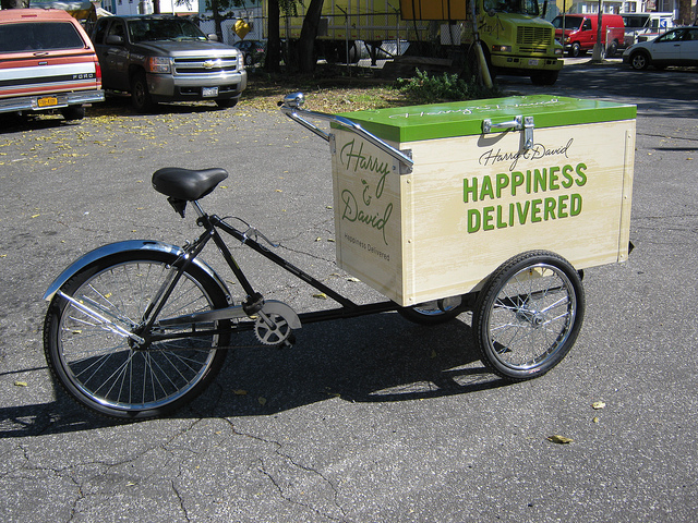 Worksman Delivery Trike